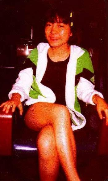 Sam Sloan took this photo of Qin KanYing during the 1990 Asian Team Championship in Genting Highlands, Malaysia.